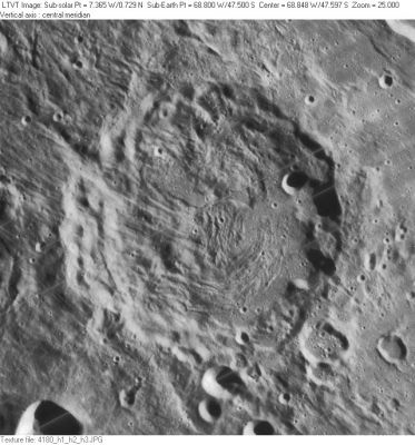 Inghirami lunar crater - image LO-IV-180H